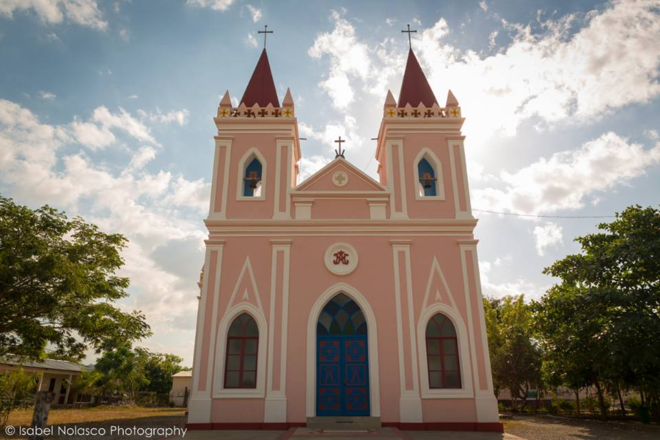 Laleia's church, dedicated to Our Lady of the Rosary in 1933. Laleia is located on the hilltops, in the Manatuto district. In architectural terms, Laleia's Church is a must, with Portuguese design, one of the oldest and most beautiful churches of Timor-Leste.